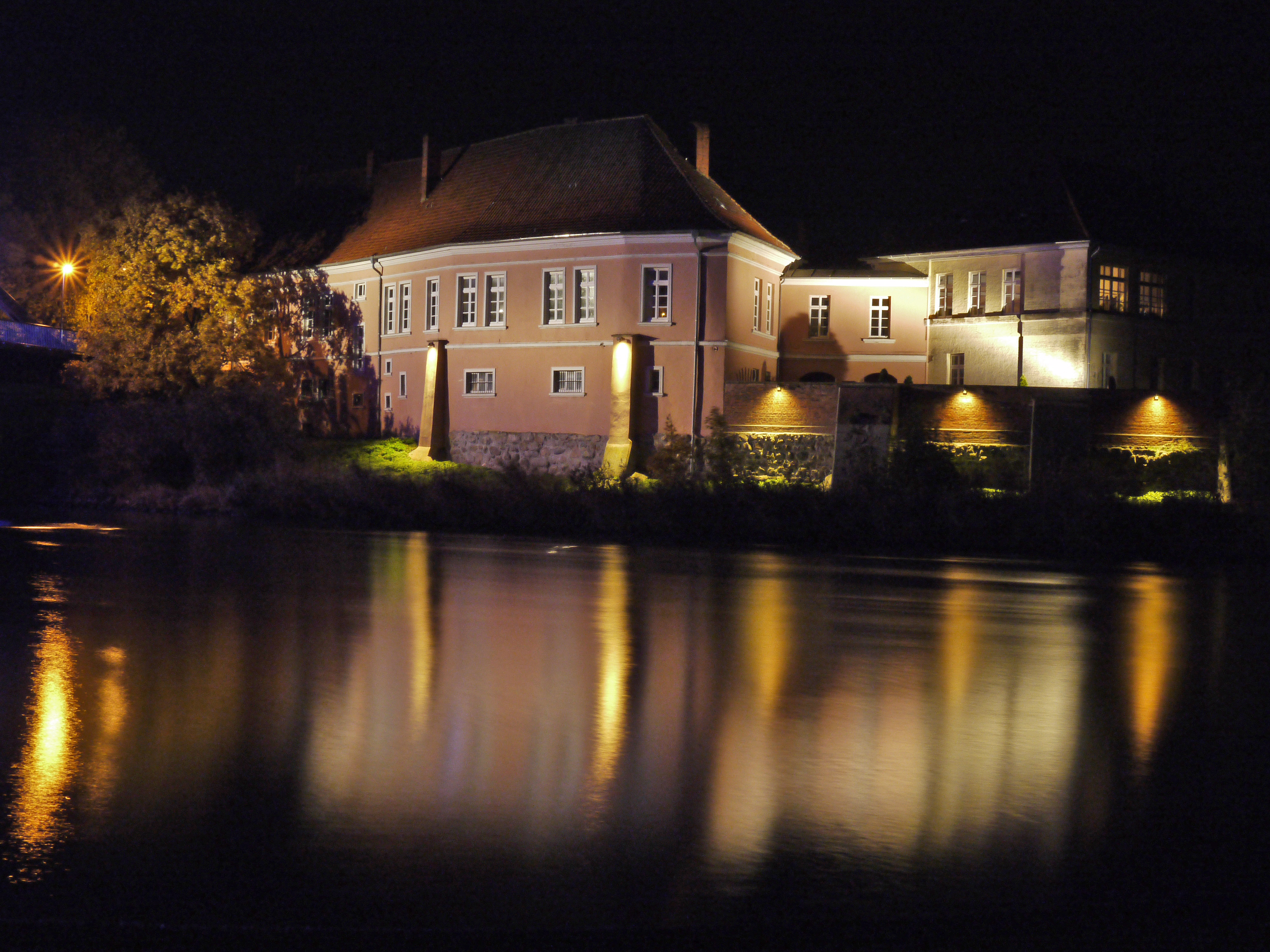 Castle of Hoya (Lower Saxony/Germany) at night.